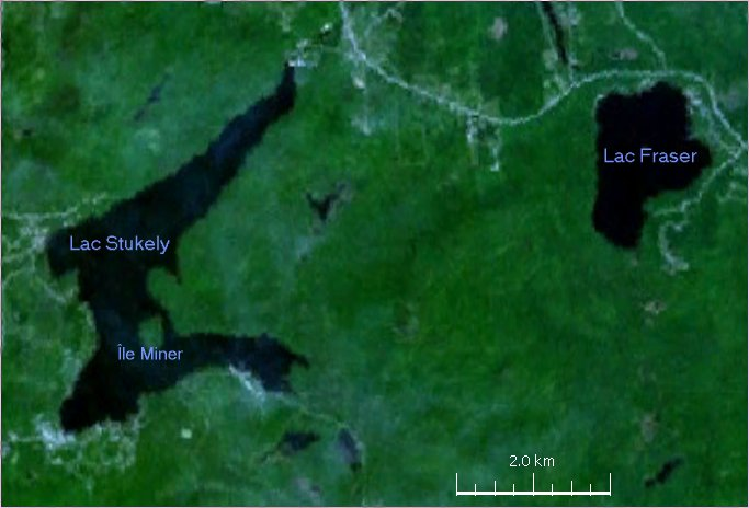 Lake Stukely and Lake Fraser near Orford (Eastern Township), Quebec, Canada.